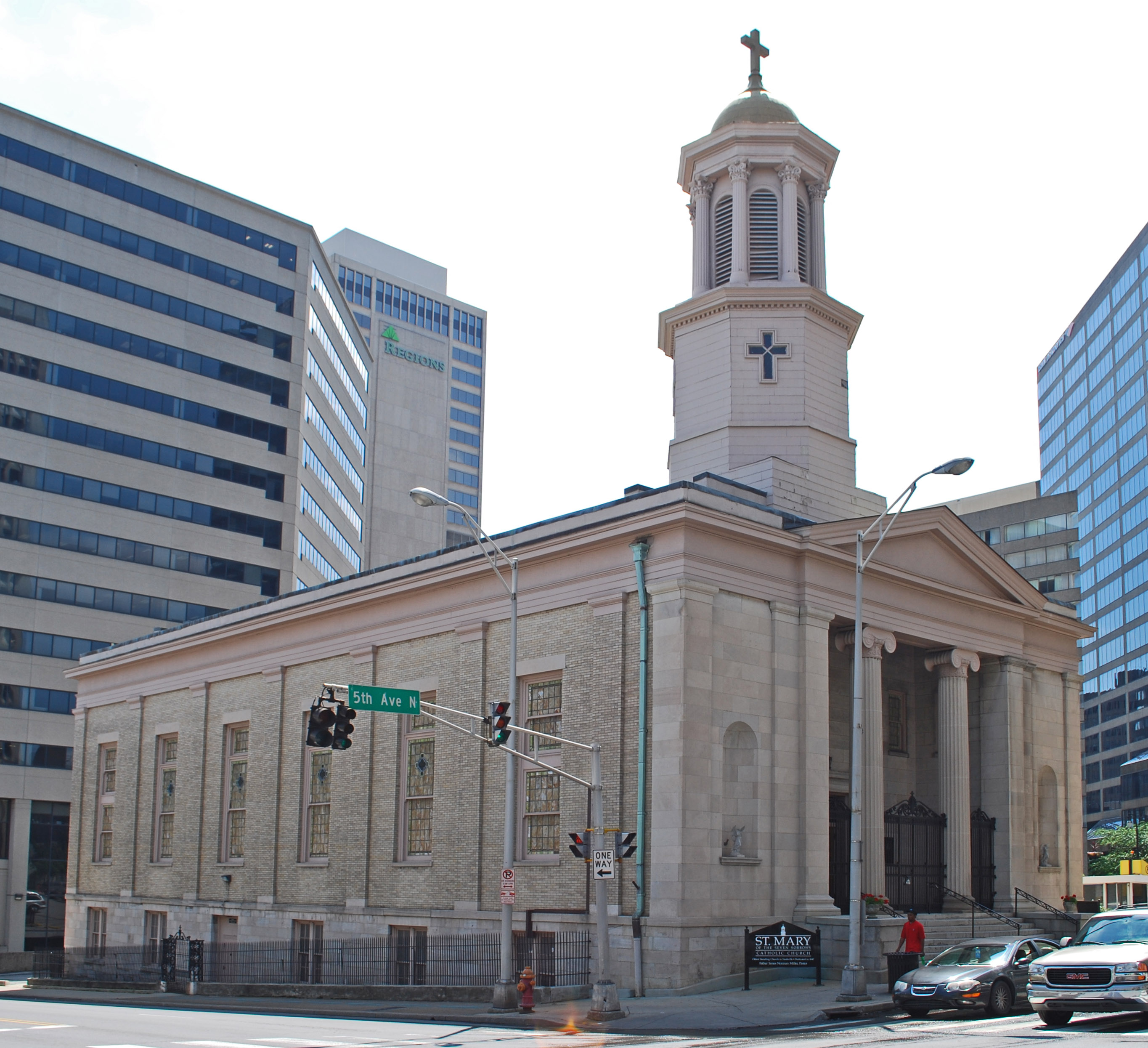 StMarys Catholic Church, Nashville TN